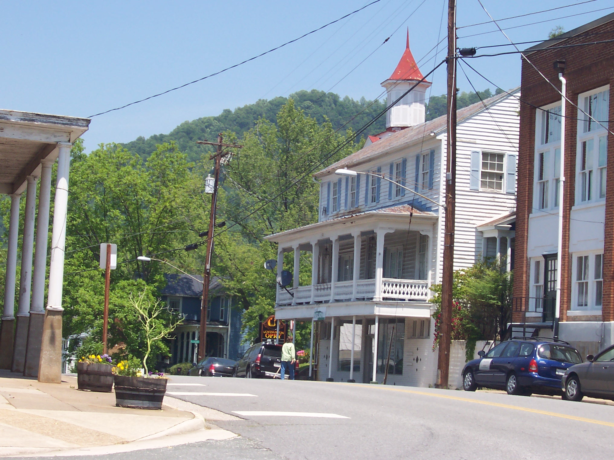 Lovingston